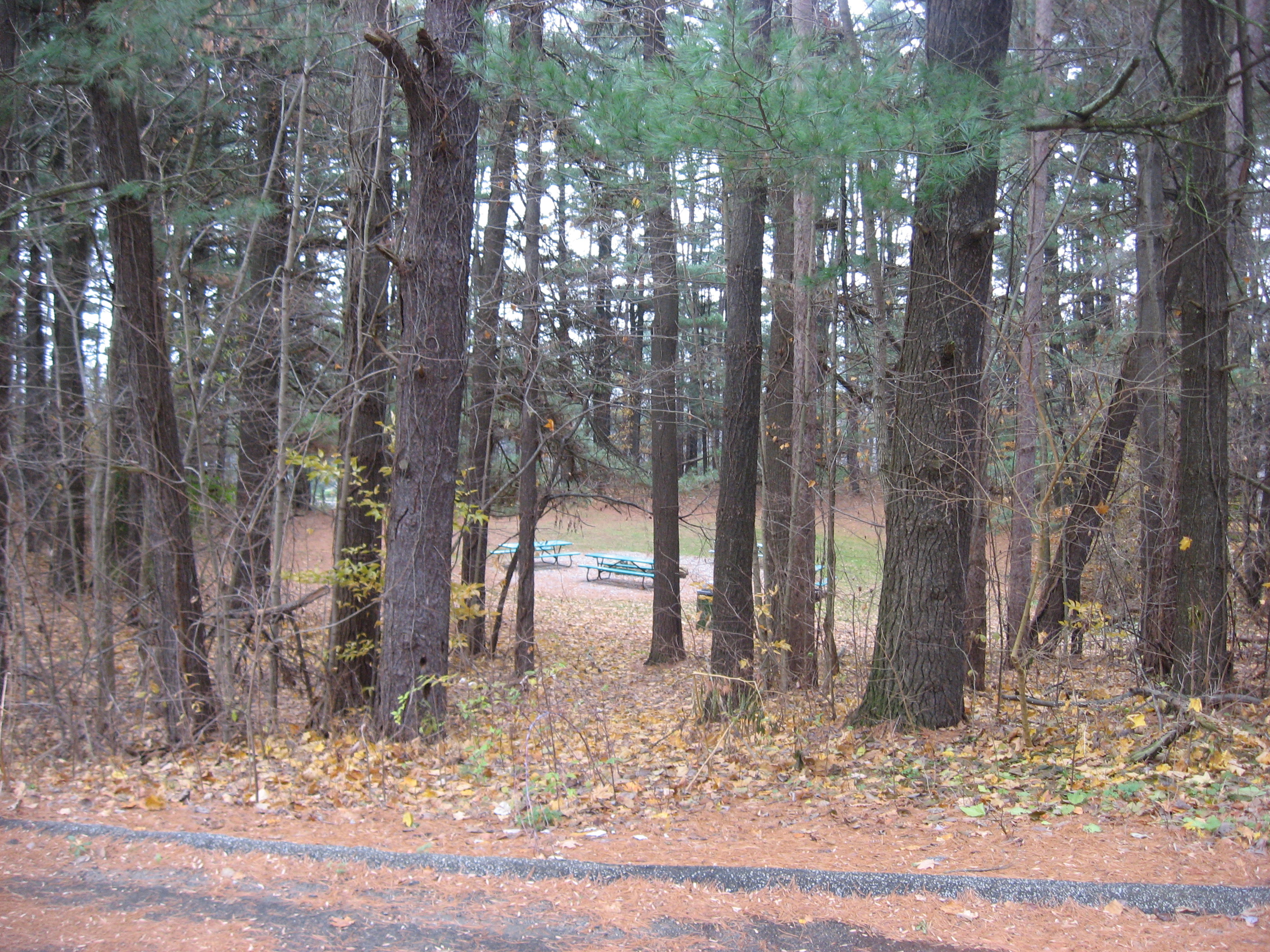 Part of the Studebaker Tree Sign — a picnic grove inside the letter "D" — located in Bendix Woods County Park west of South Bend in Olive Township, St. Joseph County, Indiana, United States. "Built" in 1938 and composed of white and red pines, it is the oldest living sign in the United States, and it is listed on the National Register of Historic Places. Select the coordinates at the top of this page in order to see an aerial view of the site, which is far more impressive than this ground-level image.